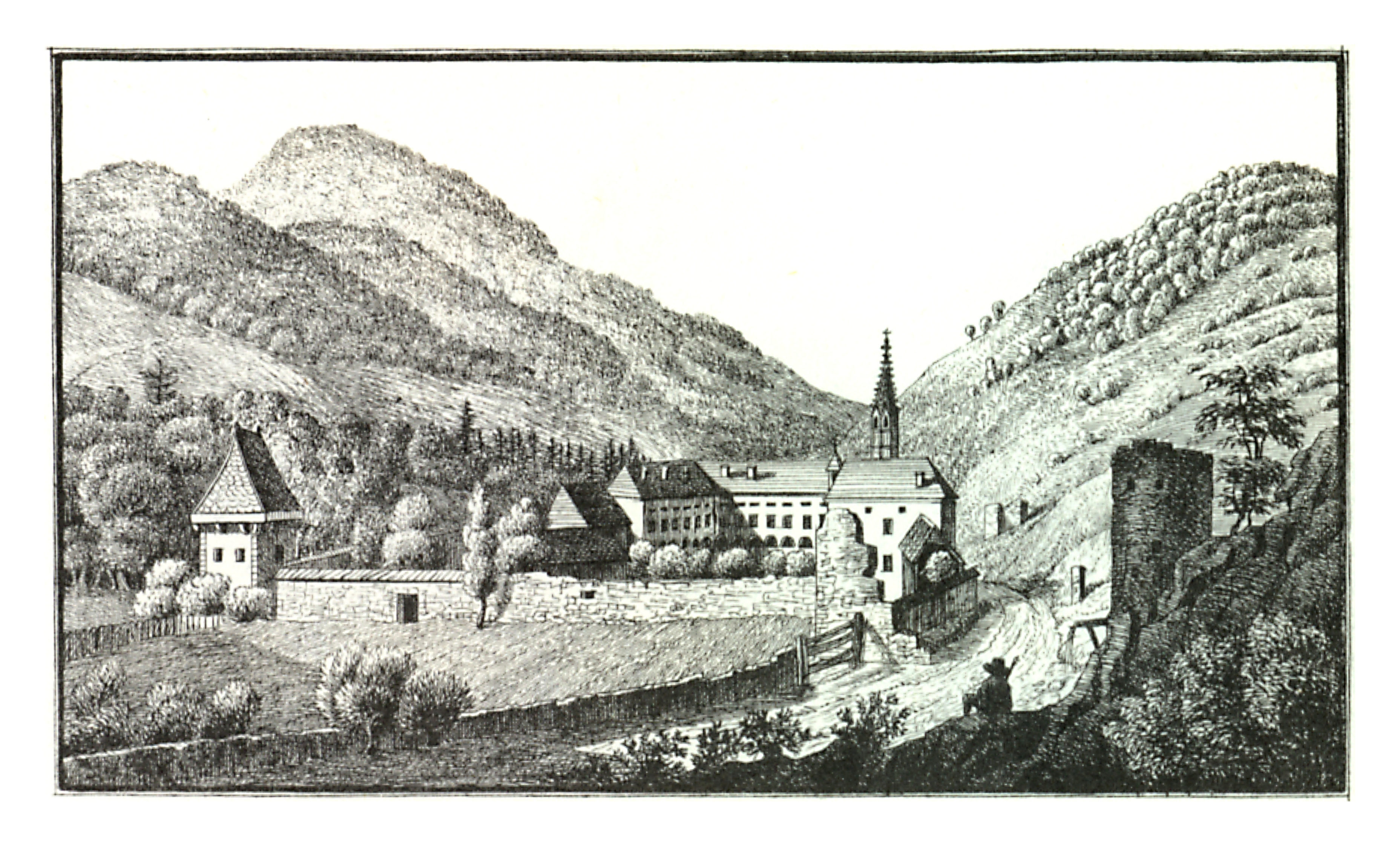 J. F. Kaiser - lithographirte Ansichten der Steyermärkischen Städte, Märkte und Schlösser Graz, 1825 Joseph Franz Kaiser (1786–1859) Alternative names J. F. KaiserDescriptionAustrian printer and editorDate of birth/death 11 March 1786 19 September 1859Location of birth/death Graz (Styria) GrazAuthority control : Q1499963 VIAF: 30629353 ISNI: 0000 0000 3083 0153 LCCN: n87141671 GND: 129880159 NLP: A24960305 WorldCat creator QS:P170,Q1499963 Scanprojekt Community Projektbudget 2012 This scan or this PDF-file was created within the GLAM-project Bookscanning, supported by Wikimedia Germany and Wikimedia Austria as a part of the community-project to capture books, documents and pictures which are not eligible to copyright or for which the copyright has expired. This document describes or depicts an object which is located in Austria today. Send requests for uncompressed scans to Hubertl. This work is in the public domain in its country of origin and other countries and areas where the copyright term is the author's life plus 100 years or less. You must also include a United States public domain tag to indicate why this work is in the public domain in the United States. This file has been identified as being free of known restrictions under copyright law, including all related and neighboring rights.